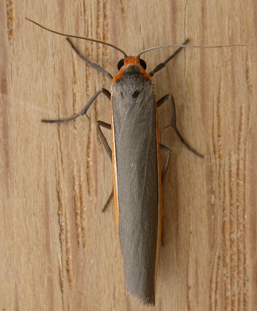 Palaeosia bicosta